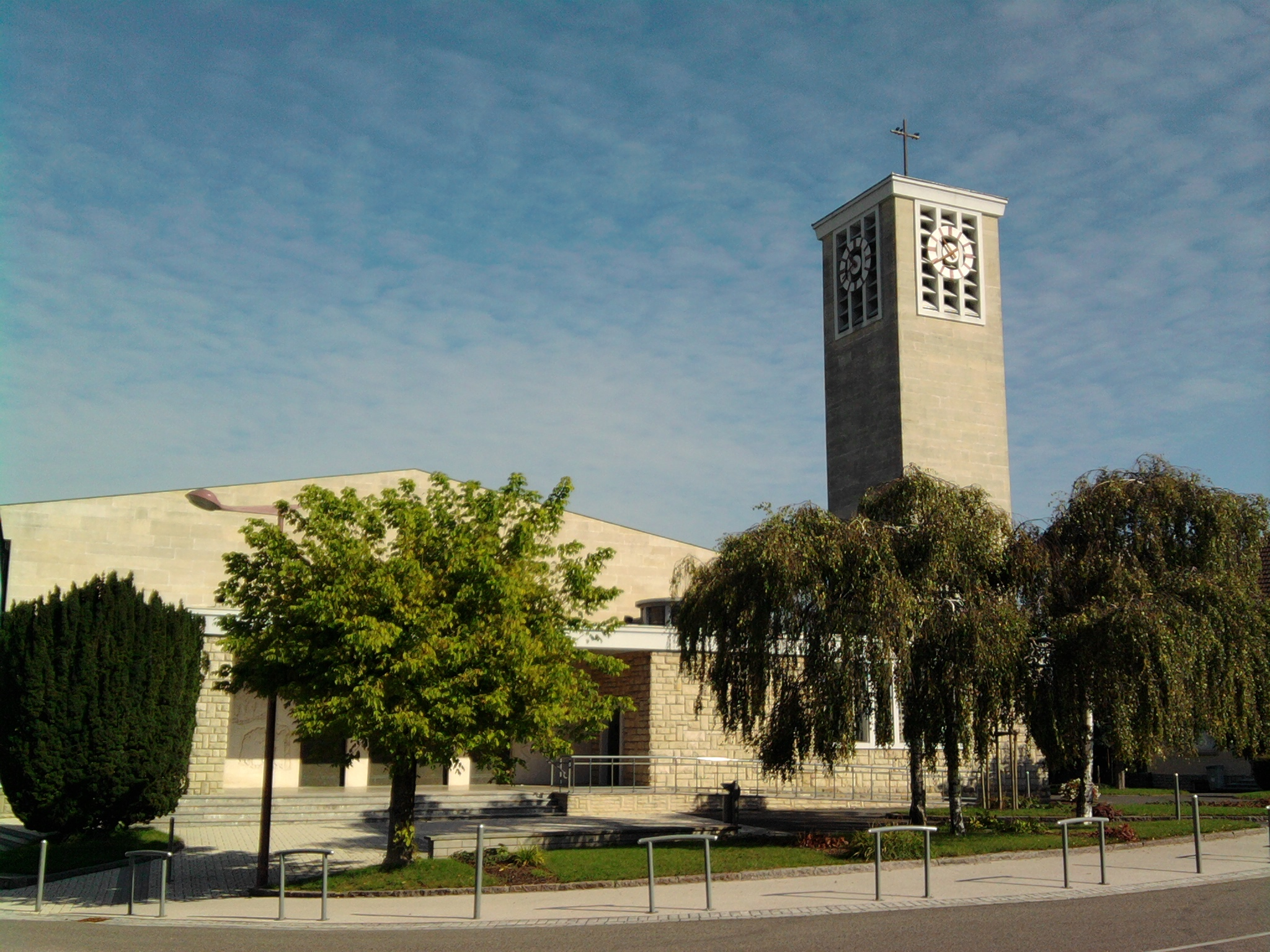 Photography of "Eglise Sainte Catherine" of Bliesbruck, Moselle (France). Modern style, middle of the XXe century.